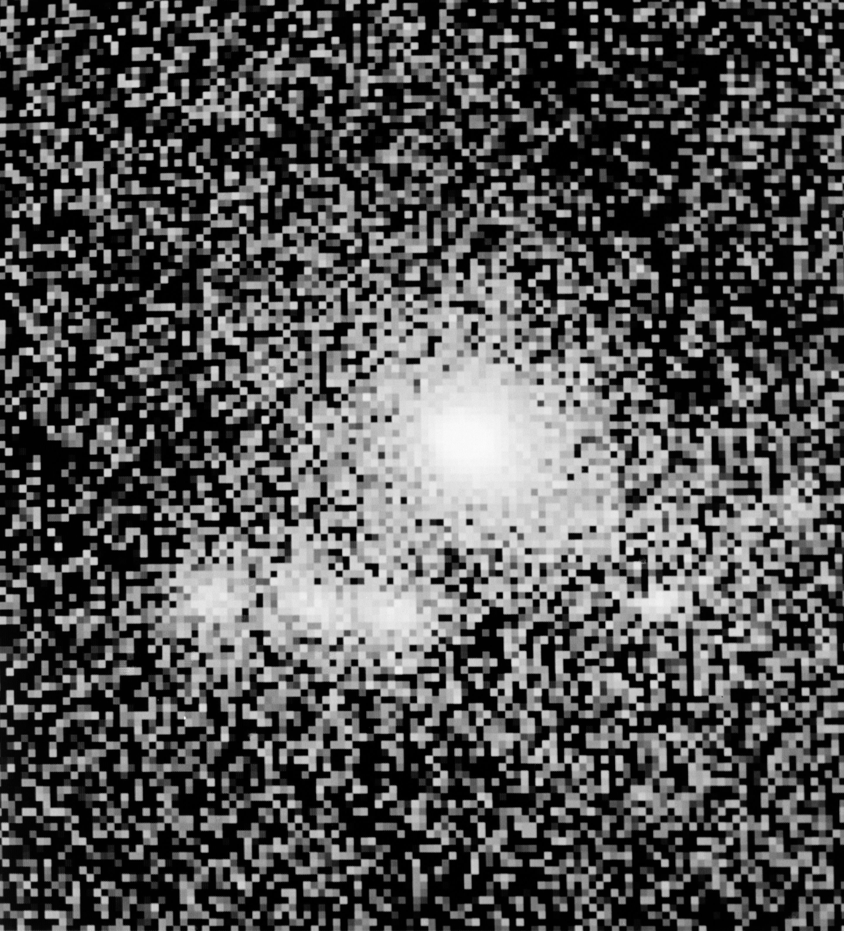 Comet Grigg-Skjellerup on July 10, 1992.